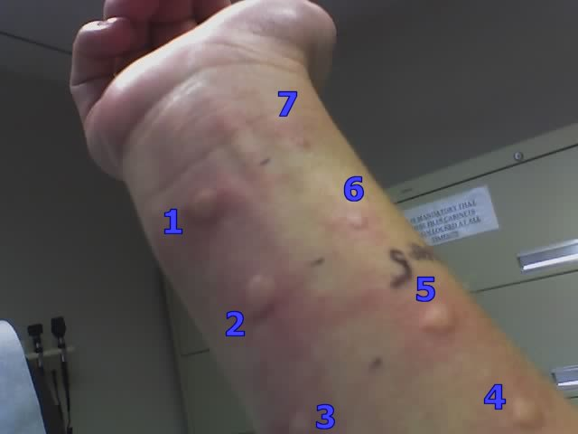 Quoting: "With this handy skin test, I was able to discover that I'm allergic to most trees, grasses, a variety of nuts, wheat and canteloupe (both only slightly) and cats."